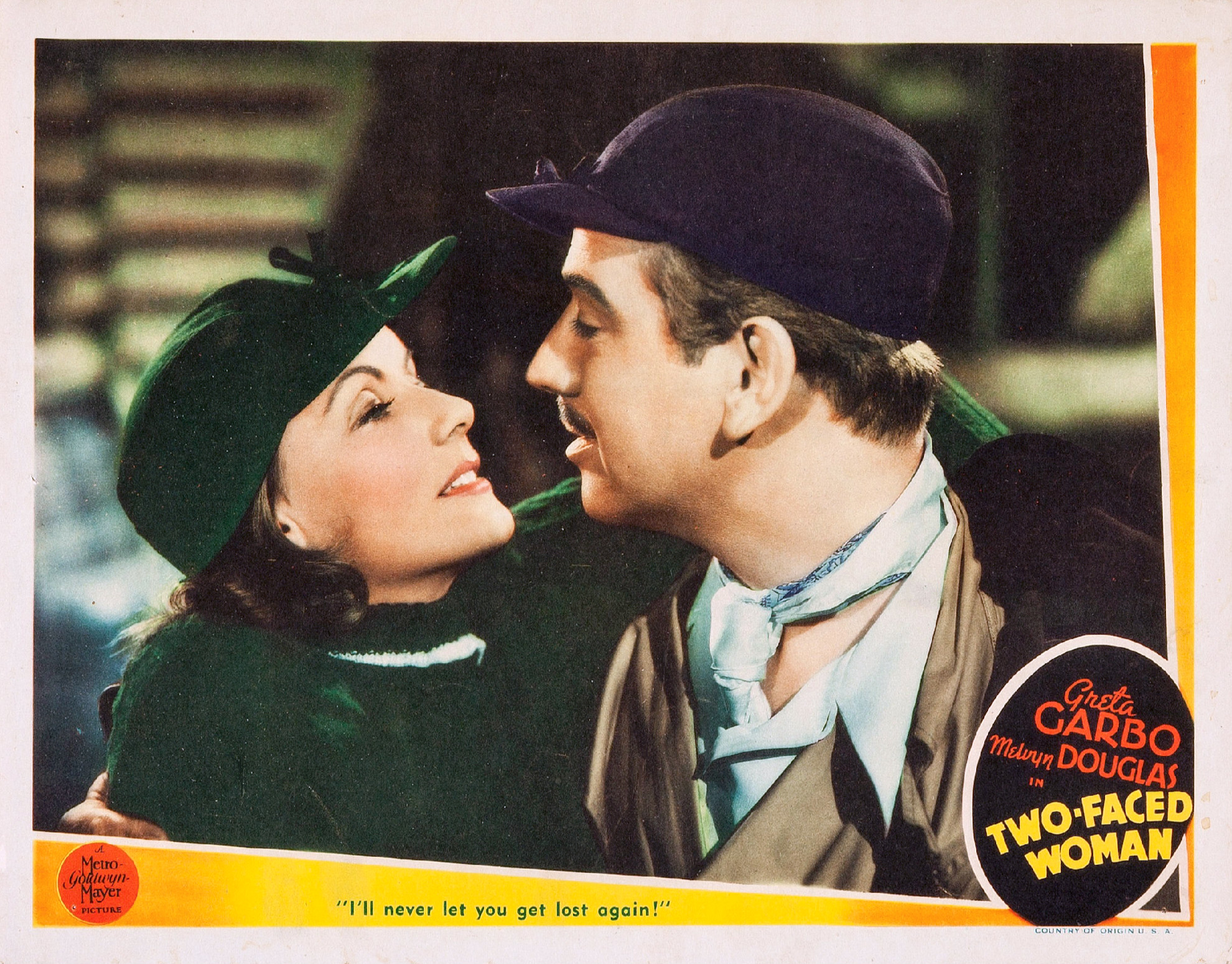 Lobby card for the 1941 film Two Faced Woman.